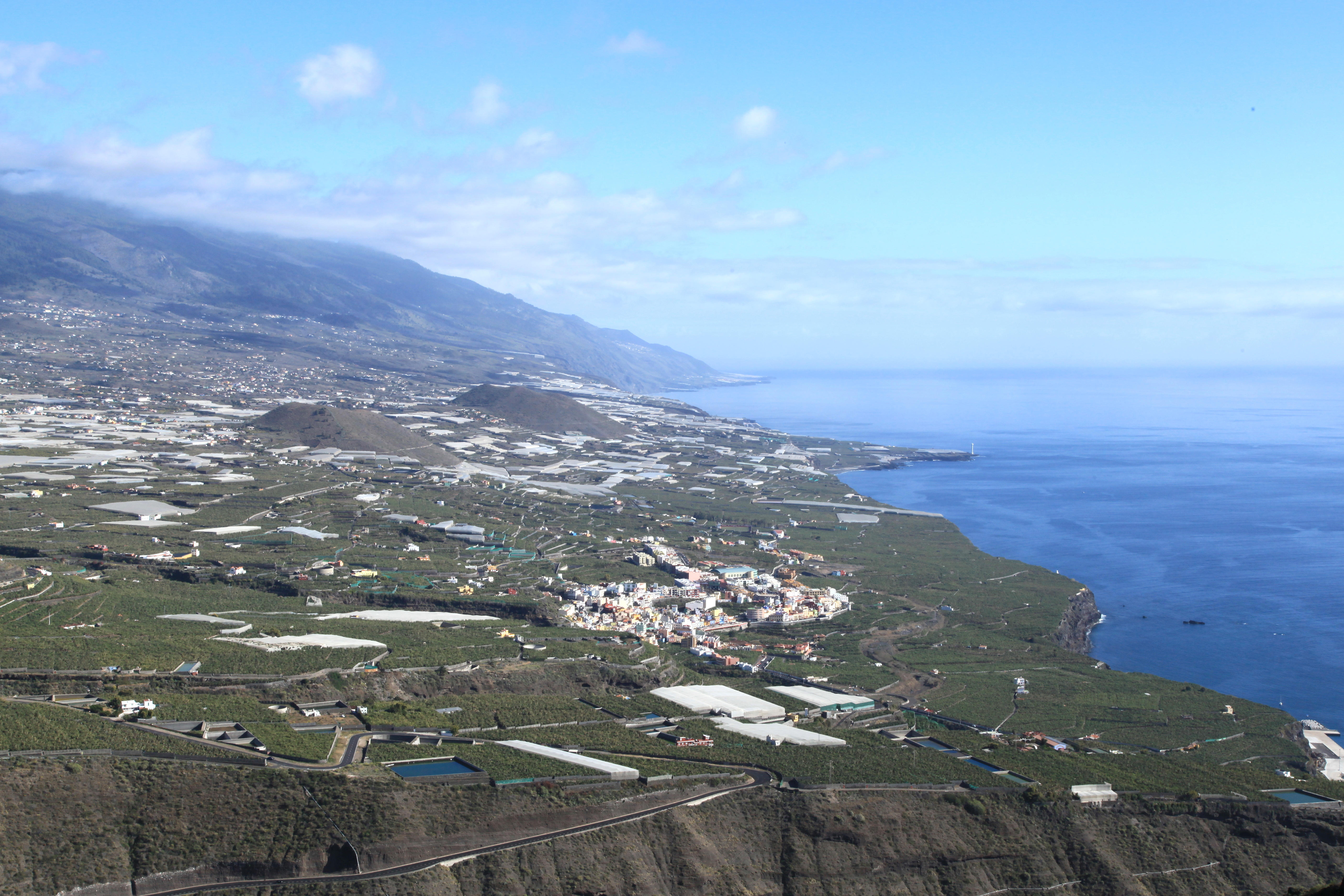 View from Mirador del Time in Tijarafe to Los Llanos de Aridane (lh) and Montaña de La Laguna and Montaña de Todoque in Tazacorte, La Palma, Canary Island, Spain